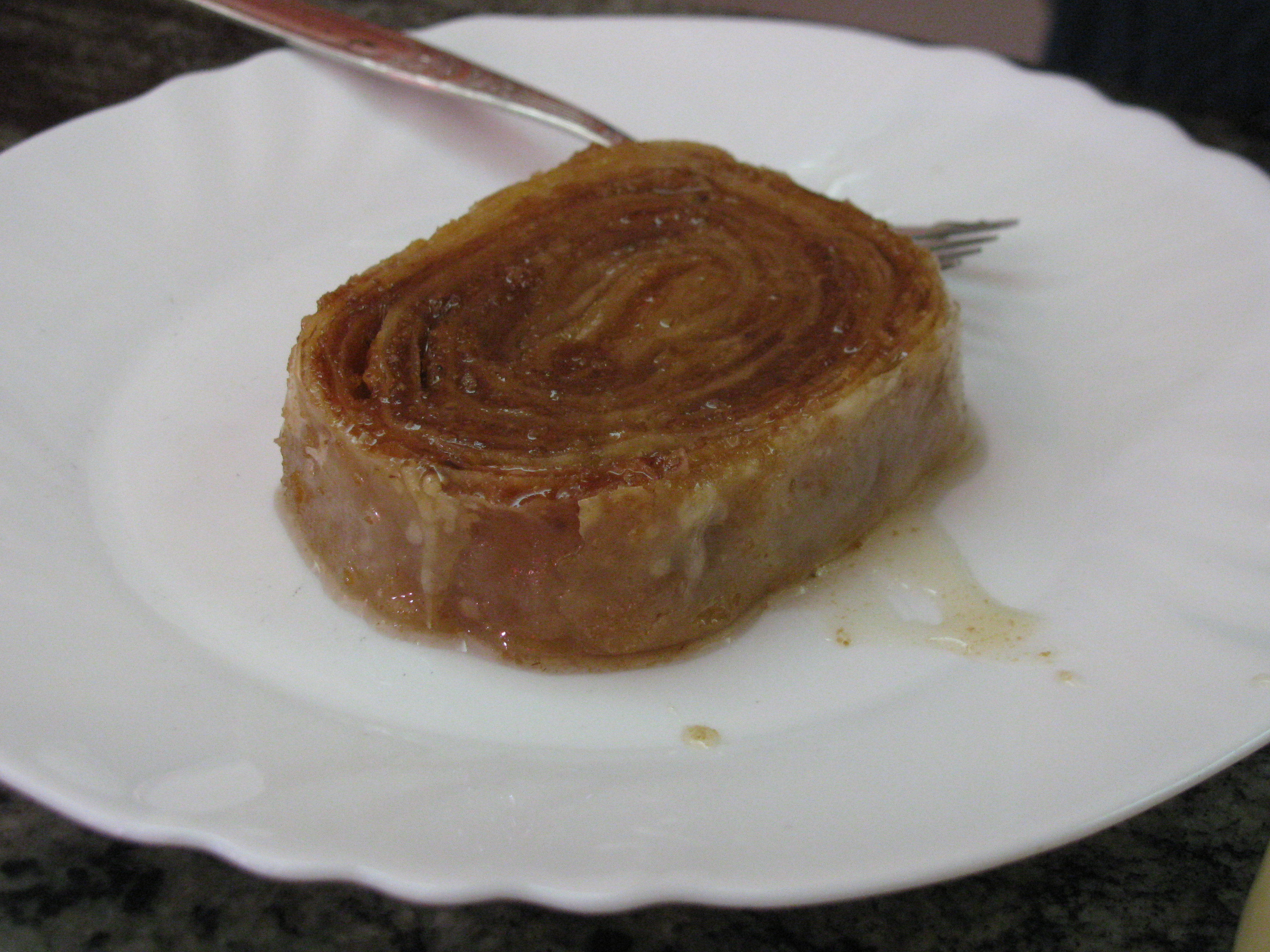 Ružica from Sarajevo